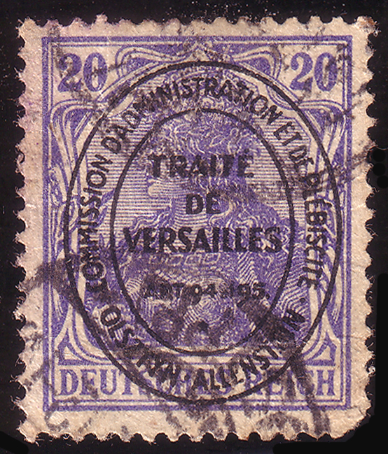 Postage stamp for Allenstein plebiscite, 5 pfennigs, 1920